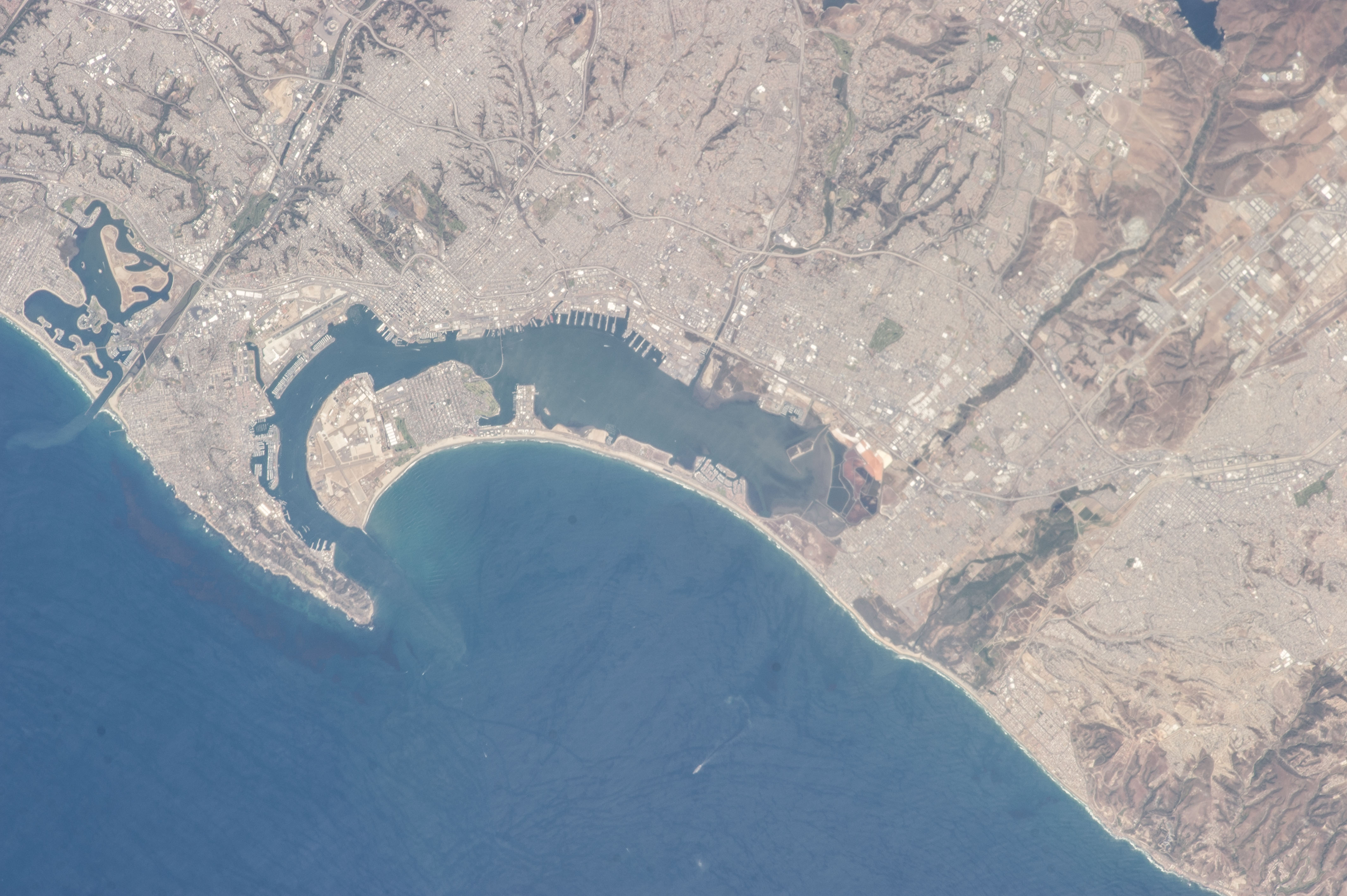 This detailed photo, taken by one of the Expedition 35 crew members aboard the Earth-orbiting International Space Station, features the metropolitan areas of San Diego, California, USA; and Tijuana, Baja California, Mexico. Together they form an international conurbation that crosses the USA-Mexico border (white line) at the northern end of the peninsula of Baja California near the city of San Ysidro, CA. Urban and suburban areas appear a light gray, speckled with white rooftops indicating large industrial and commercial buildings and centers. Vegetated areas – parks, golf courses, and the foothills of nearby mountains – appear green, in contrast to the tan and dark brown of exposed soils and bedrock in highland areas. The San Diego-Tijuana conurbation also includes the cities of Chula Vista, Carlsbad, San Marcos, National City in the USA; and Tecate, and Rosarito Beach in Mexico. The combined population of the region is approximately 5 million according to 2010 census information from both the USA and Mexico. The city of Coronado, CA, situated on an artificial peninsula across the bay from San Diego, is both a popular beach resort and the location of U.S. Navy air station and training facilities. Point Loma defines the western boundary of San Diego Bay, and is part of the city of San Diego. While the northern half of the Point Loma peninsula hosts various residential communities, the southern half is federal land occupied by US Navy installations, the Fort Rosecrans National Cemetery and the Cabrillo National Monument that marks the landing of the first European on the west coast of the United States.